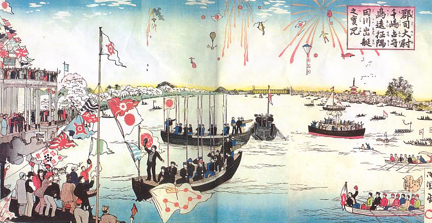 Ukiyoe where 郡司成忠（Shigetada Gunji.A serviceman from Japan） was drawn.